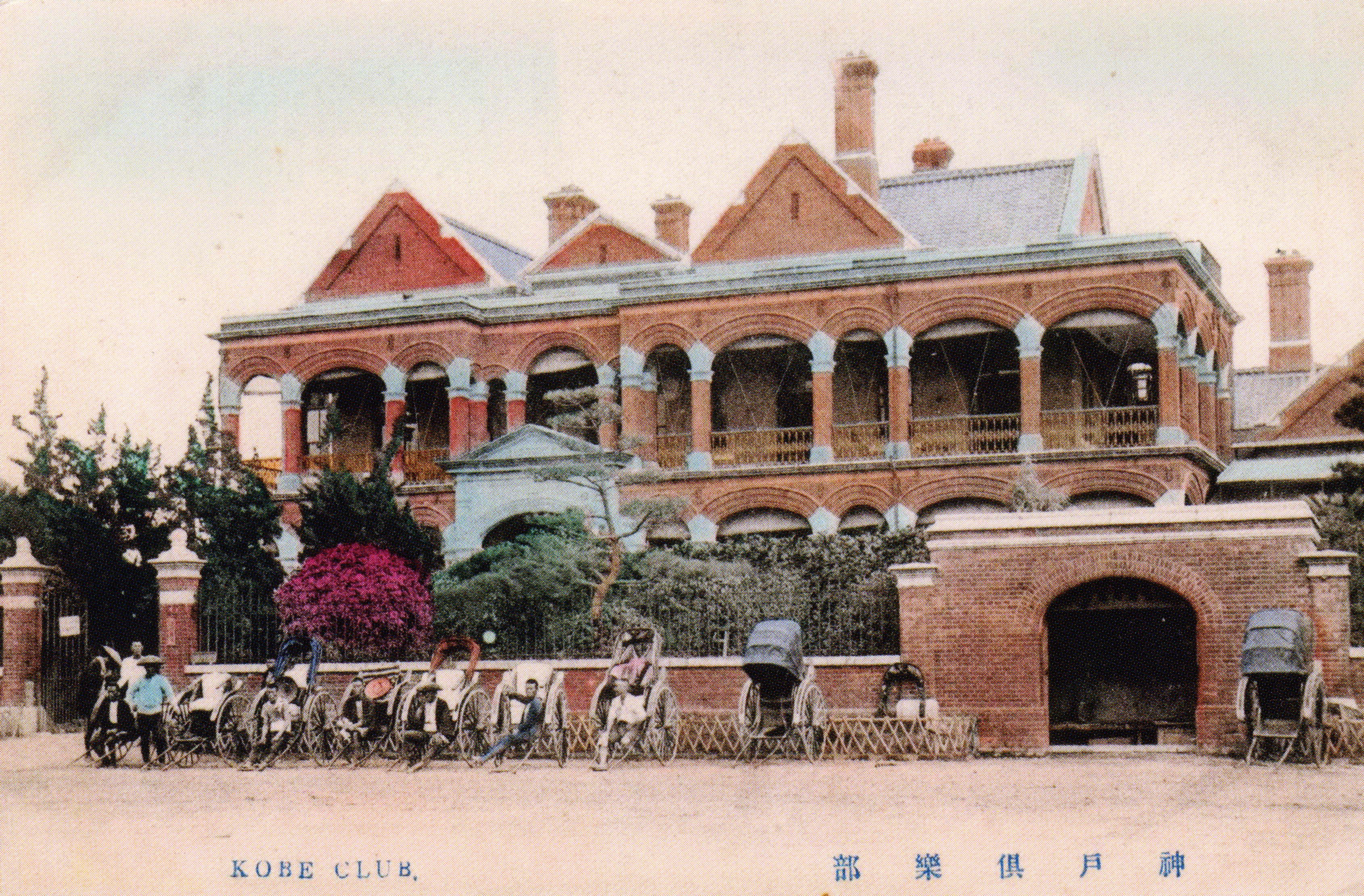 Kobe Club in Kobe, Hyogo prefecture, Japan. It was built in 1890, and lost in 1945. Design by Alexander Nelson Hansell (1857-1940, RIBA member).